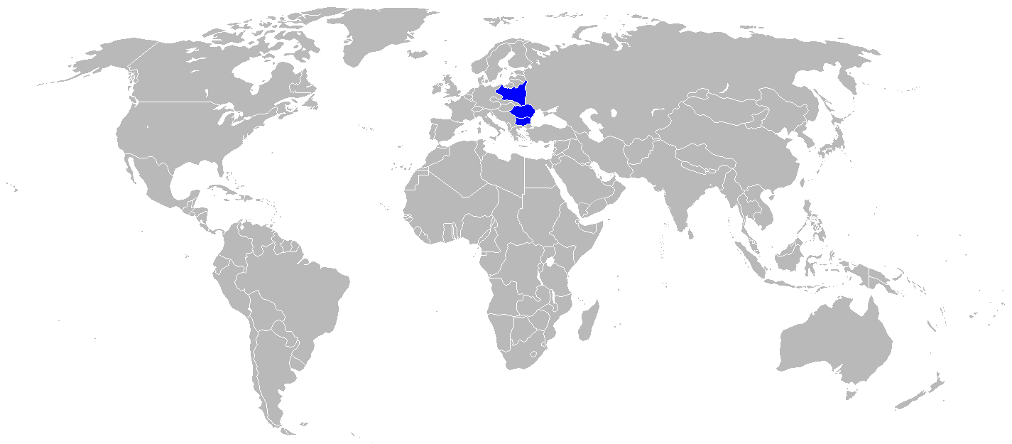 Operator countries of the PZL.23 bomber aircraft. Self-made based on File:BlankMap-World 1937.png.